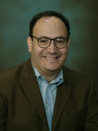 Photo